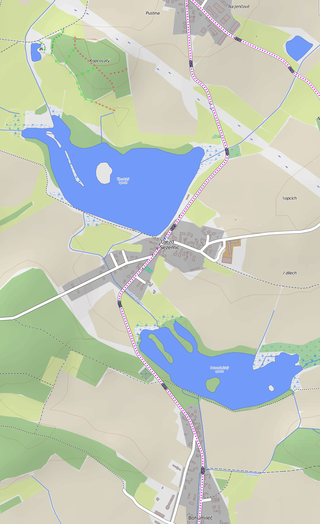 Újezdský and Bohumilečský pond, schema. Pardubice District, the Czech Republic.